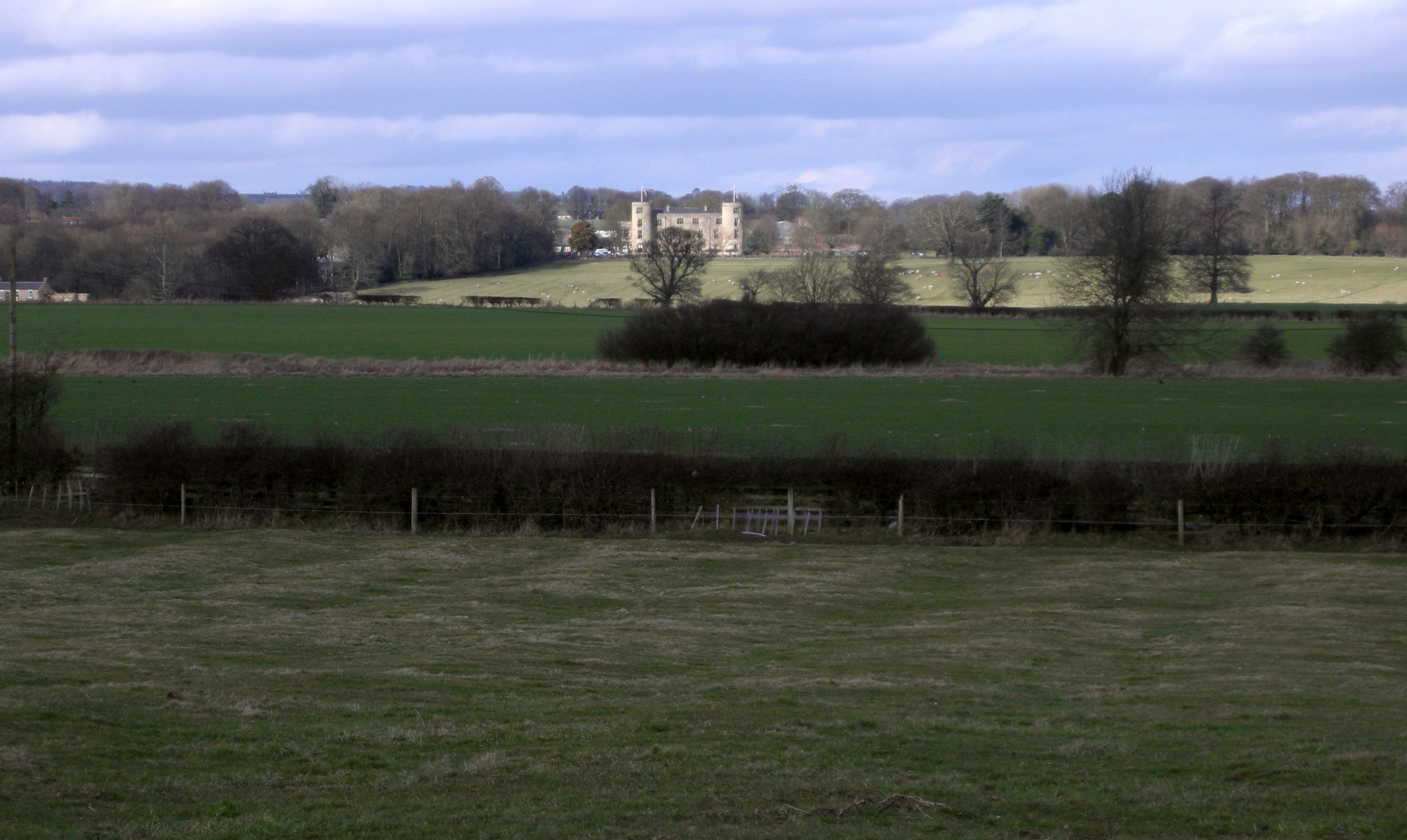 The lost village of Ulnaby, County Durham, England. Occupied 13th-16th century; now visible only as lumps and bumps in a field at Ulnaby Hall Farm. Picture adjusted to show up lumps and bumps in ground. View north to Walworth Castle Hotel, showing Ulnaby's little old ridge and furrow fields in the foreground.